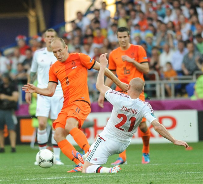 UEFA Euro 2012 match between Netherlands and Denmark that took place in Kharkiv. Final result was 0:1 (Krohn-Delhi)Daniel Agger (back) and Niki Zimling (21, front), Denmark, and Arjen Robben (11) and Robin van Persie (16), Netherlands